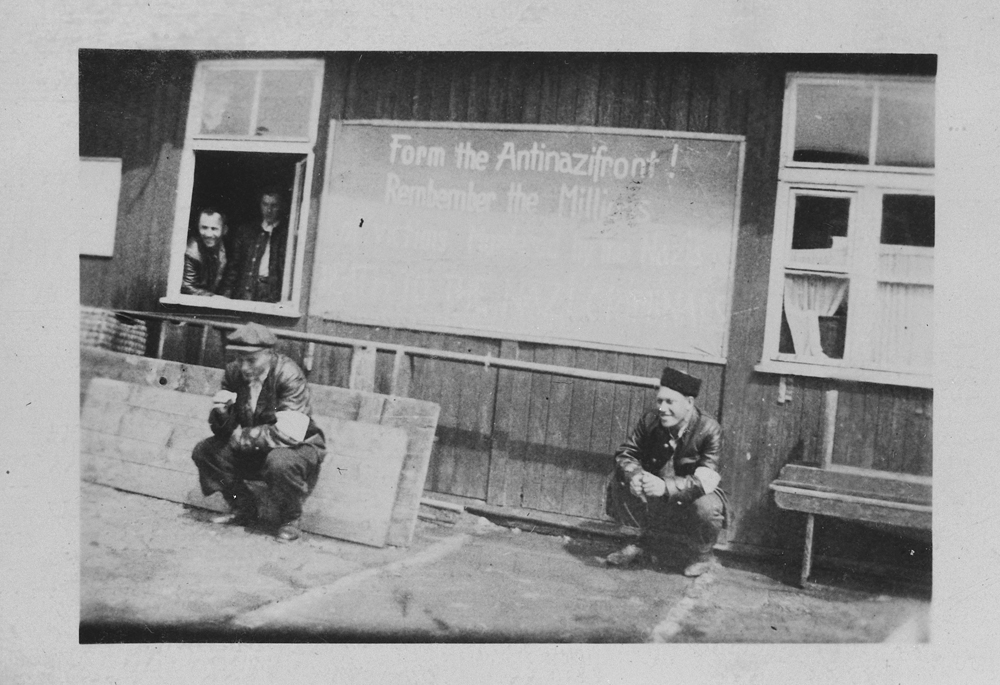 Two survivors sit outside a barrack beneath a bulletin board in the Buchenwald concentration camp.